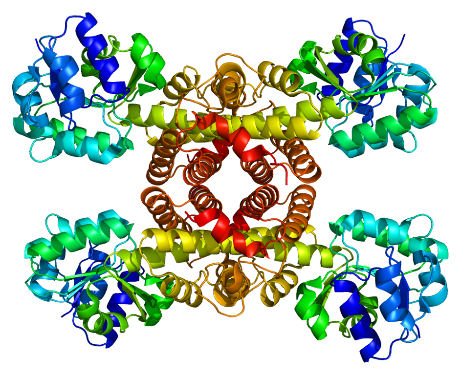 Structure of the HIBADH protein. Based on PyMOL rendering of PDB 2gf2.